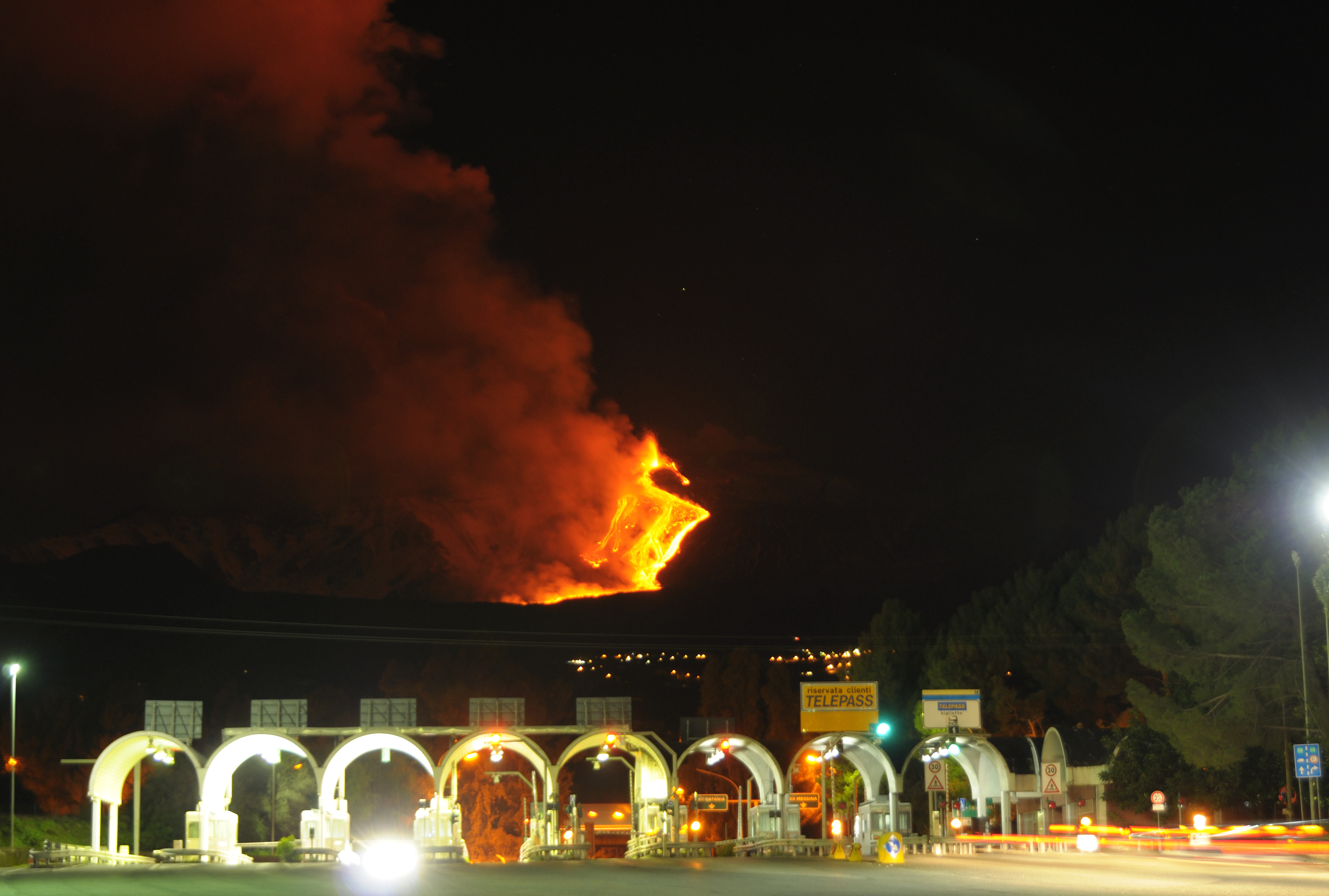 Mount Etna, Sicily